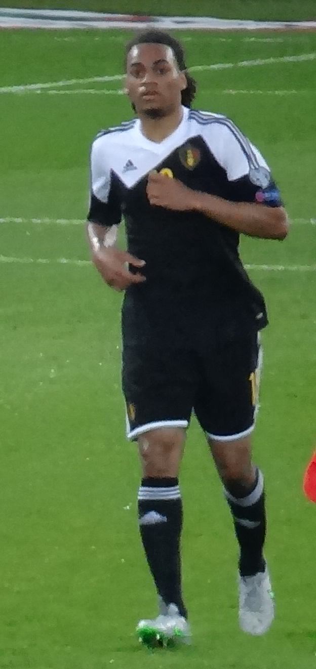 Belgium international footballer Jason Denayer playing against Wales at Cardiff City Stadium.